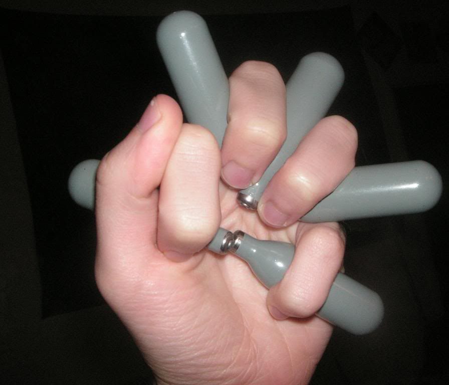 Noz Chargers